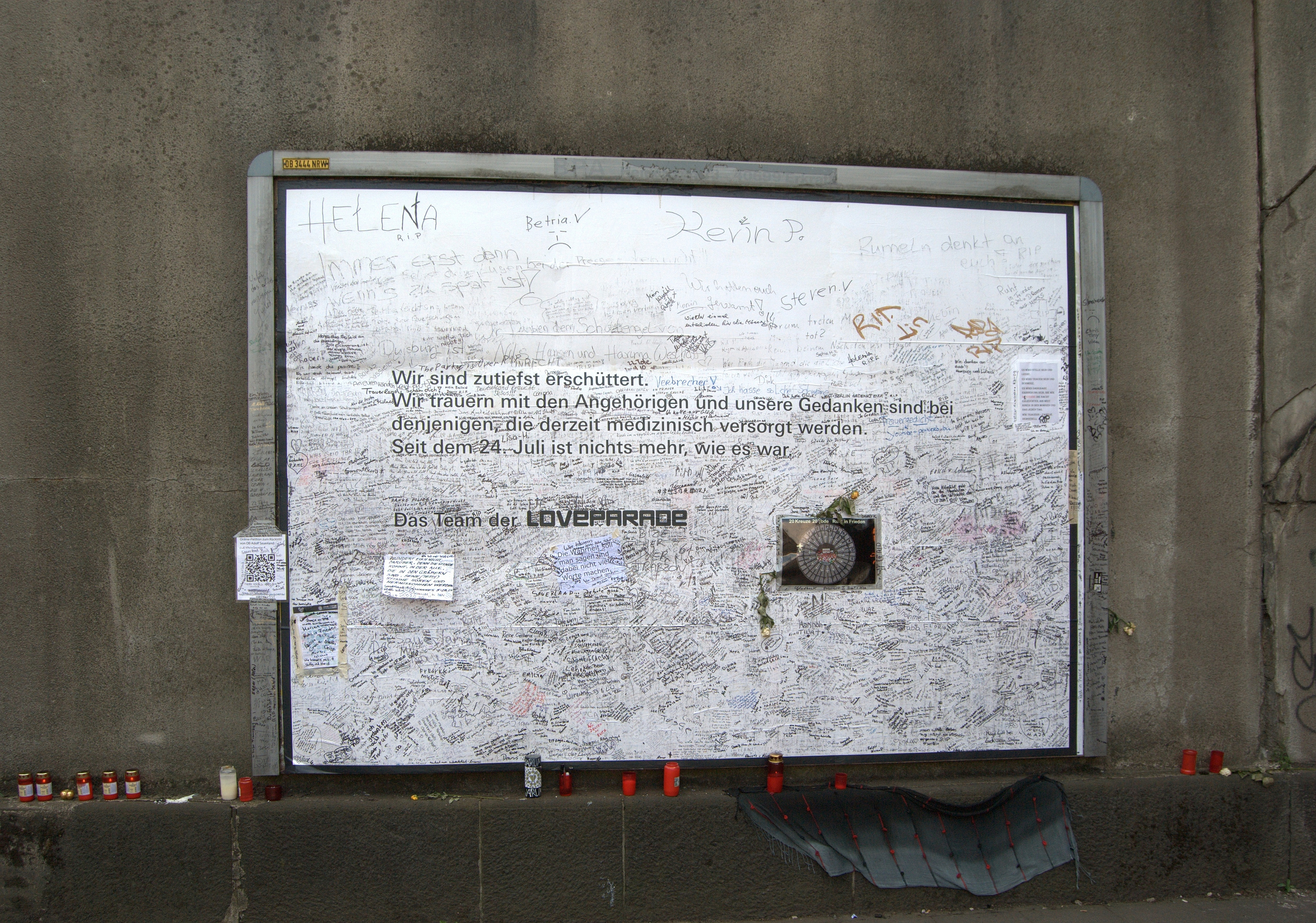 Plaque with condolences from the organizers of Duisburg Love Parade for the victims of Love Parade stampede 2010.